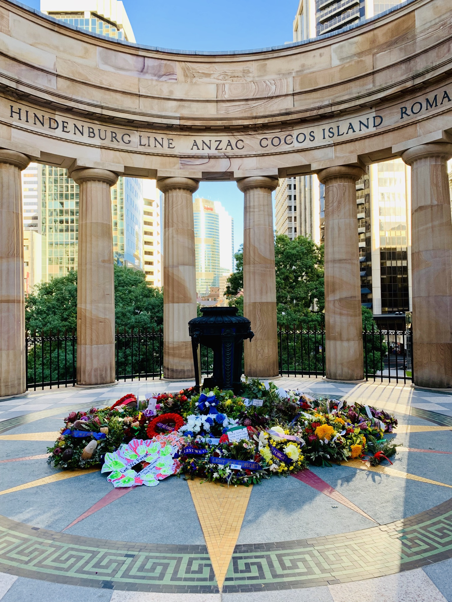 Eternal flame, Shrine of Remembrance, ANZAC Square, Brisbane, Anzac Day 2019